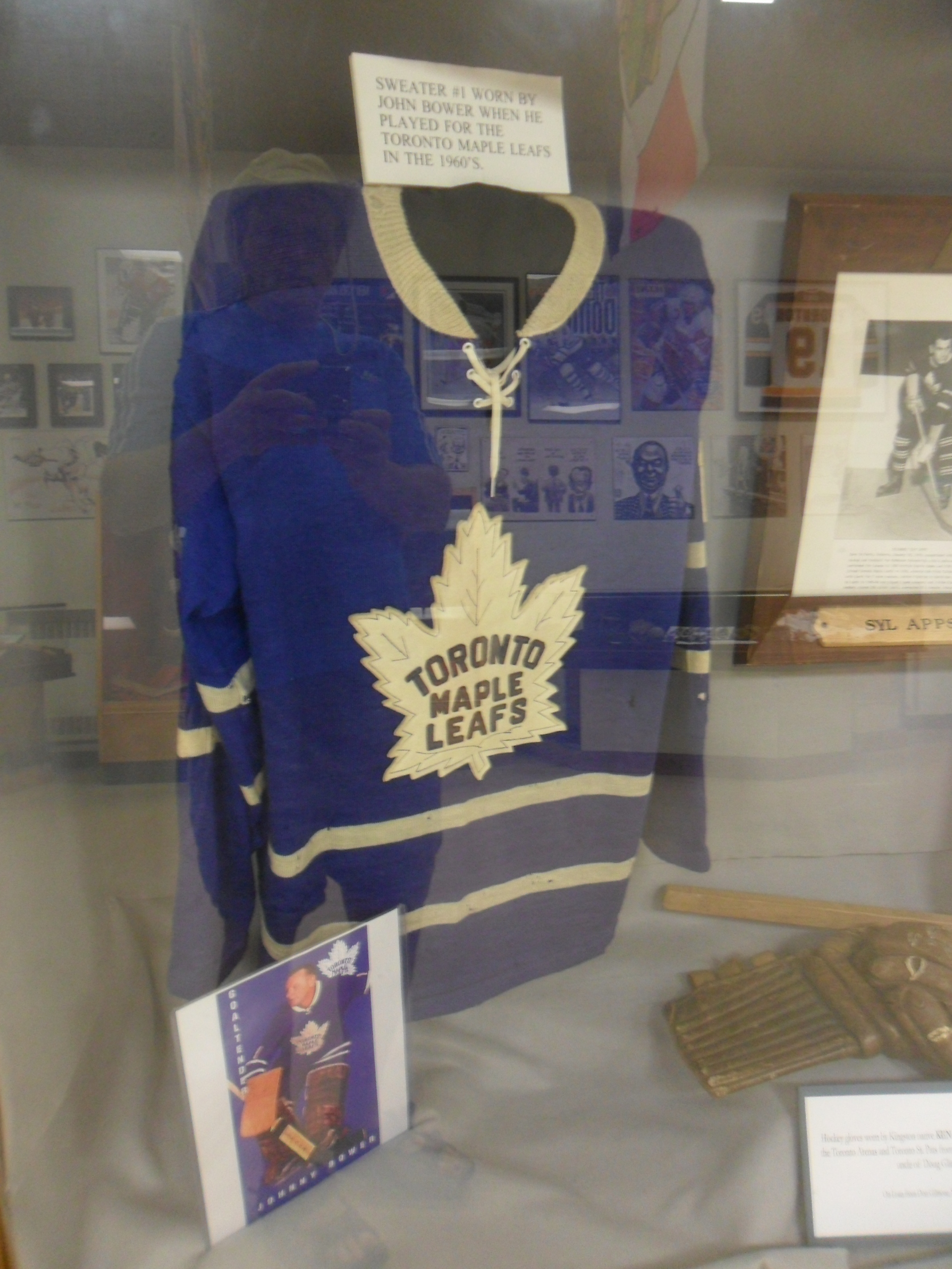 Jersey of hockey great Johnny Bower